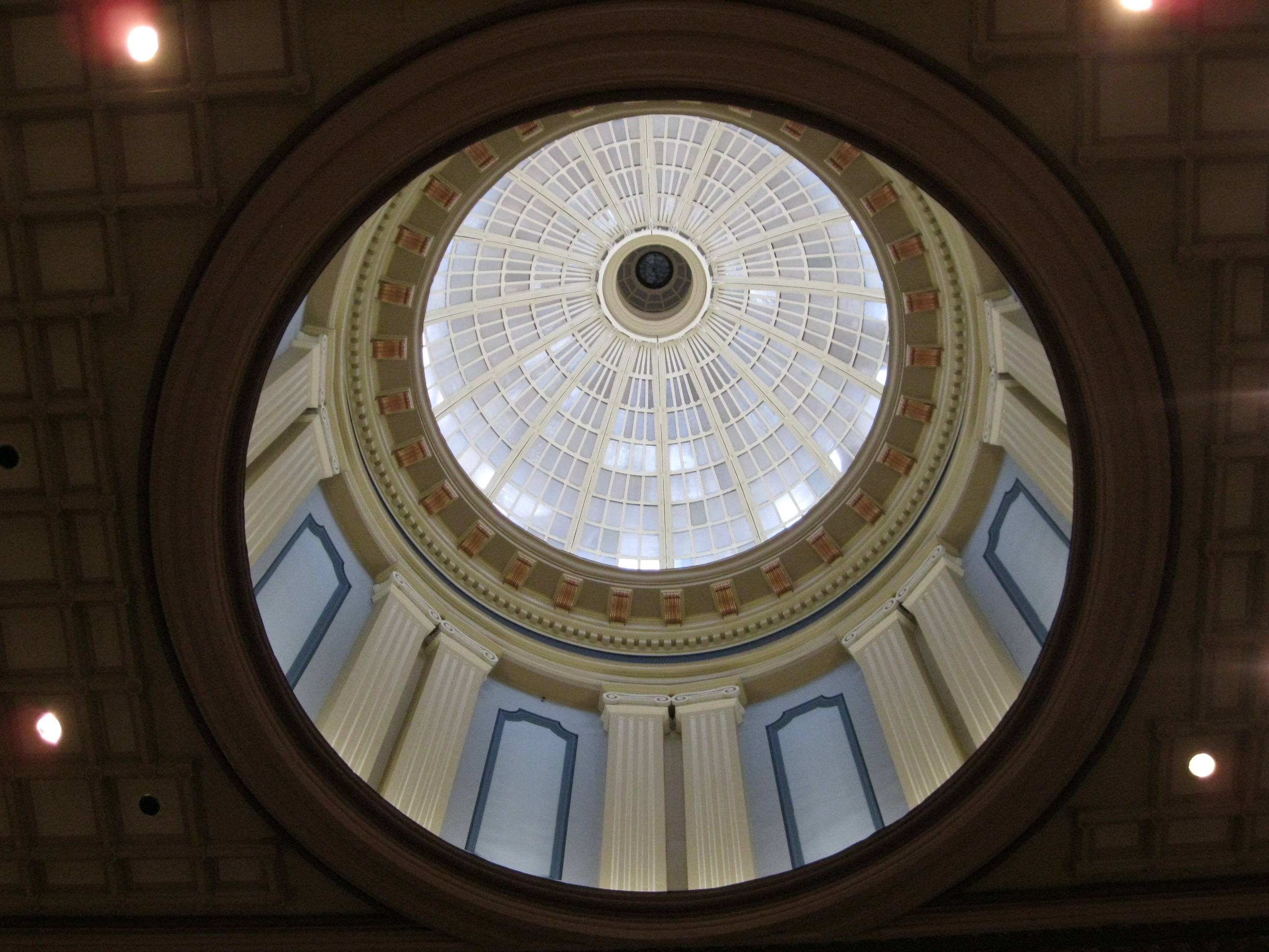 An interior look at the dome at the South Carolina State House.